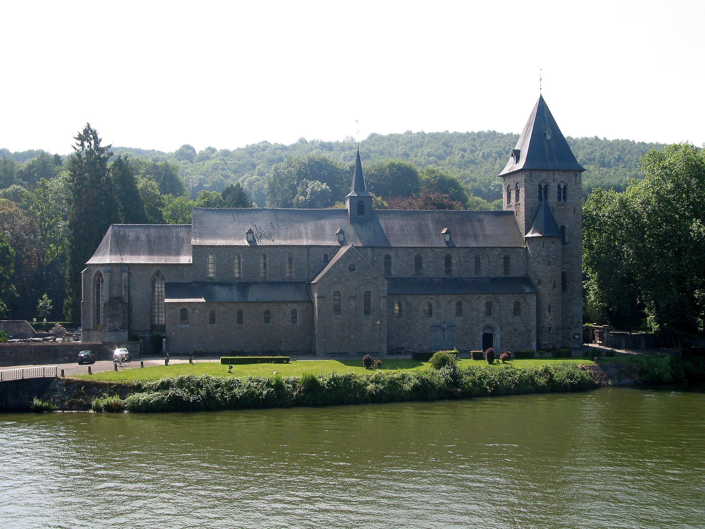 Hastière-par-Delà (Belgium), the St. Peter Abbey church (1033-1035).